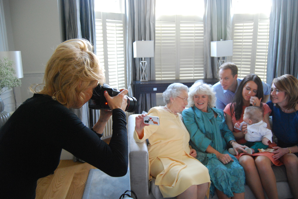 BTS NOTHS 2 0205 - work of Alison Jackson with look alike